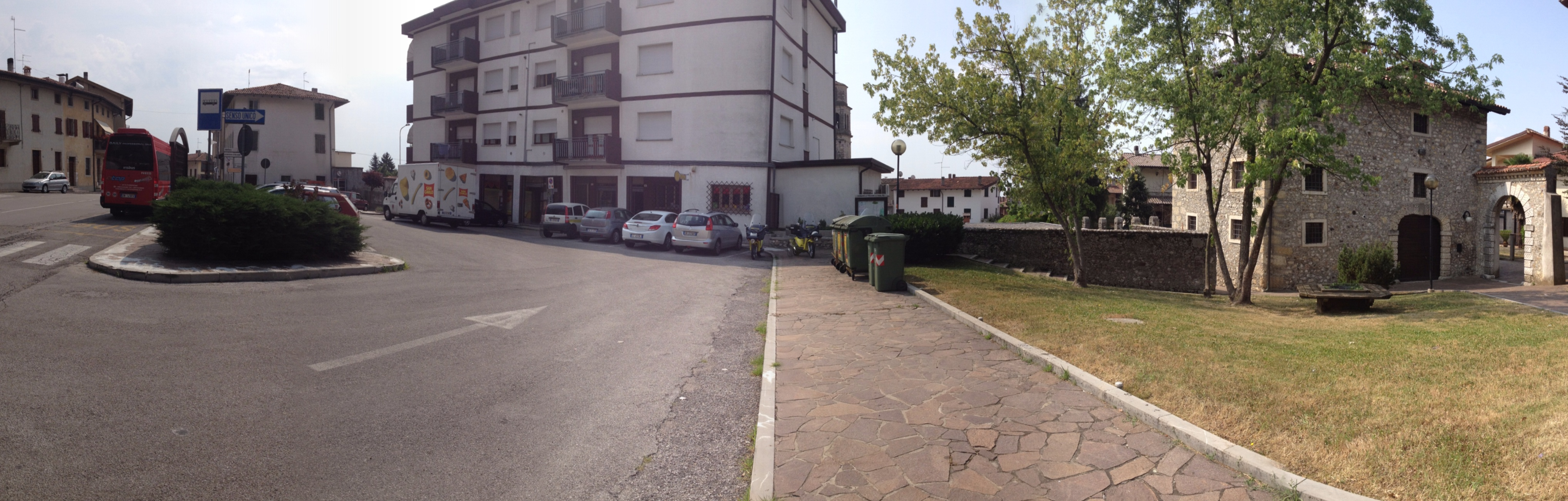 Main square of Pinzano (Iyaly). PHOTO MADE BY ME WITH IPHONE 4S